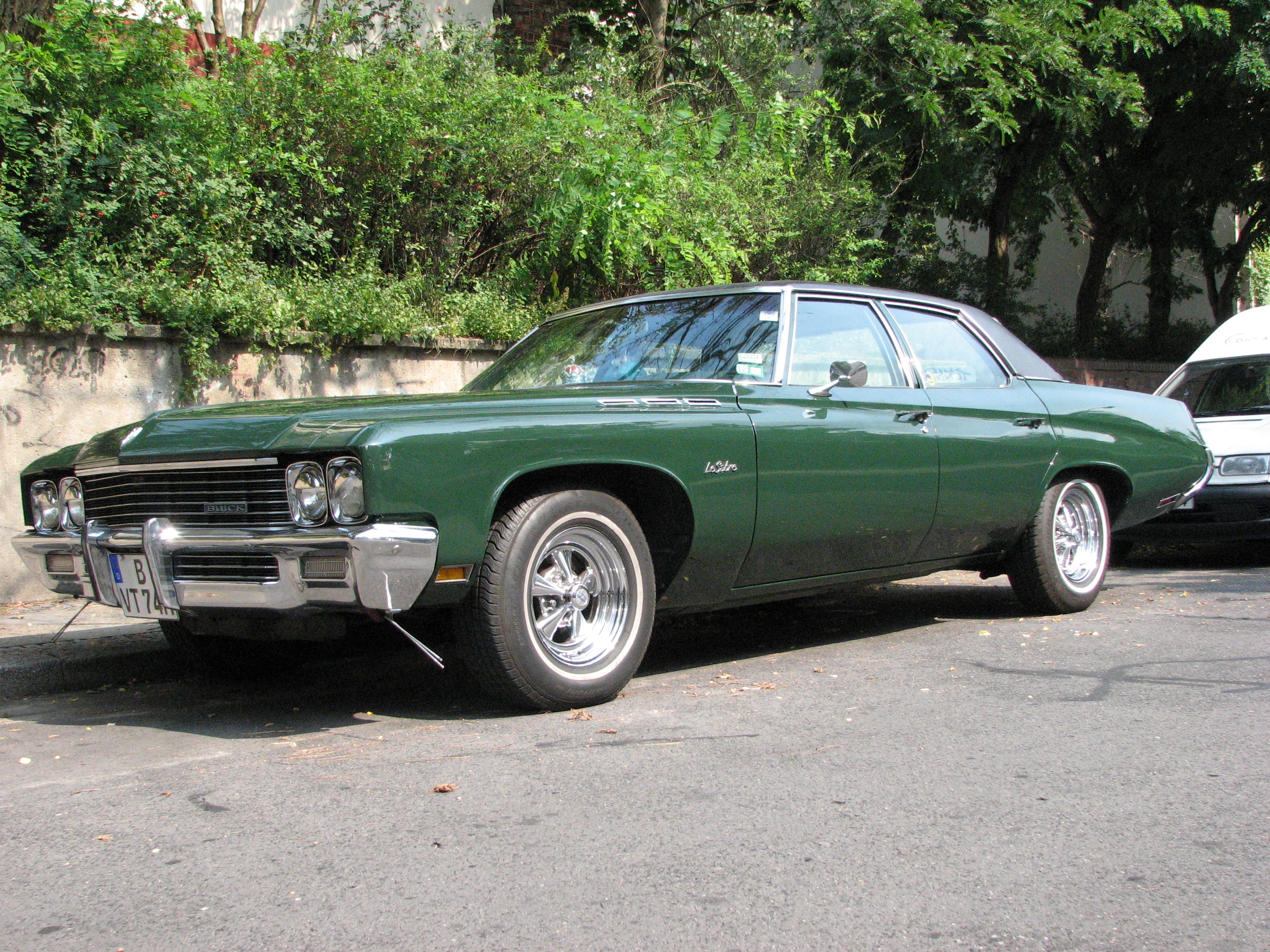 1971 Buick LeSabre 4-door sedan